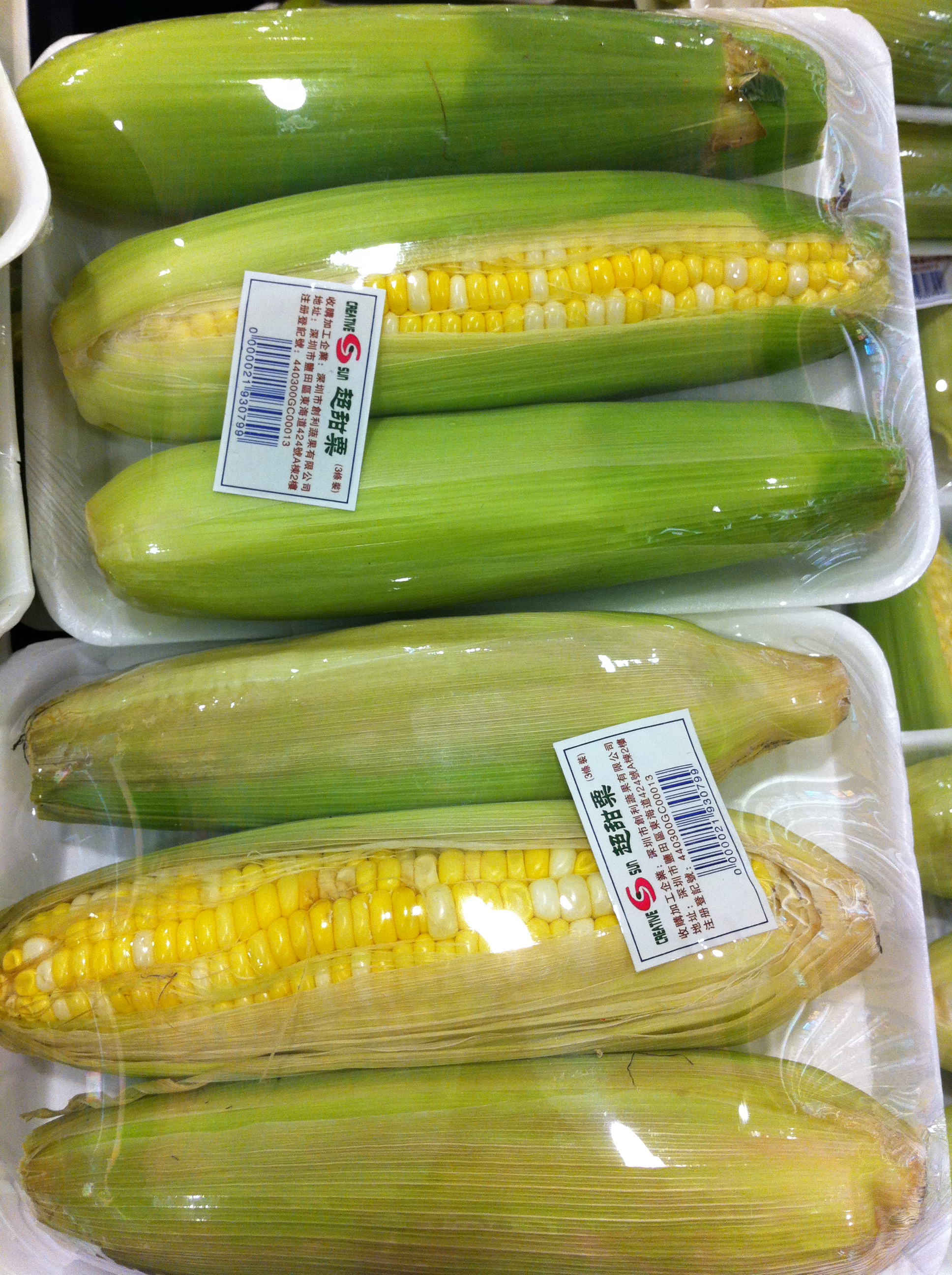 Food products in Hong Kong - 粟米